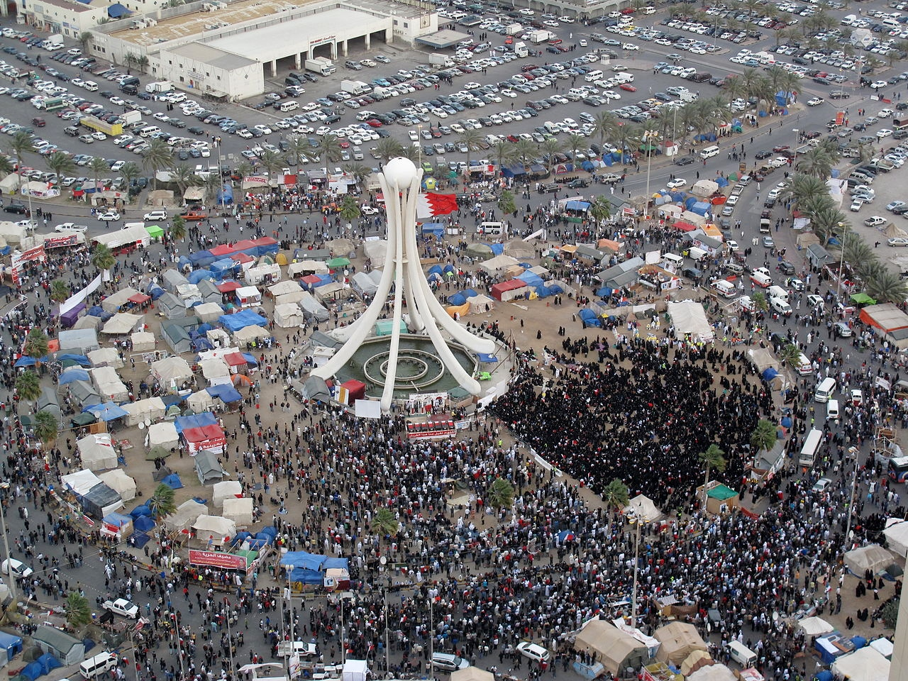 Thousands of protesters gathering in Pearl roundabout 2 days before crackdown. This is the day GCC troops entered Bahrain.